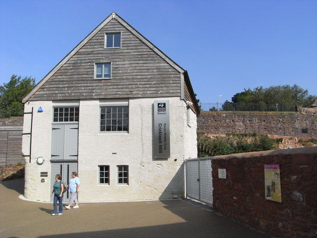 Cricklepit Mill Sadly not open on a Sunday.